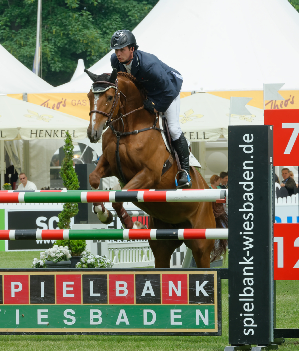 CSIYH* int. Springprüfung nach Strafpunkten und Zeit Internationales Pfingstturnier Wiesbaden 2015 The making of this document was supported by the Community-Budget of Wikimedia Germany.